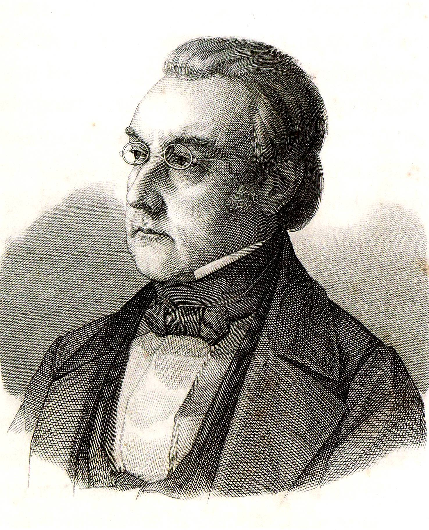 Wilhelm Matthias Naeff, member of the Swiss Federal Council 1848-1875 (etching)